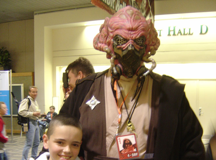 This could be Clone Wars animated series supervising director David Filoni in that costume.